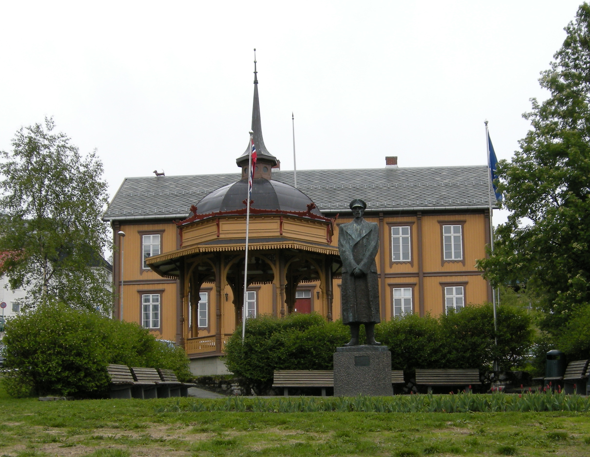 Tromsø City - Rådstua and Musikkpaviljongen